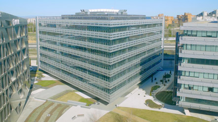 Edificio Aegon Seguros